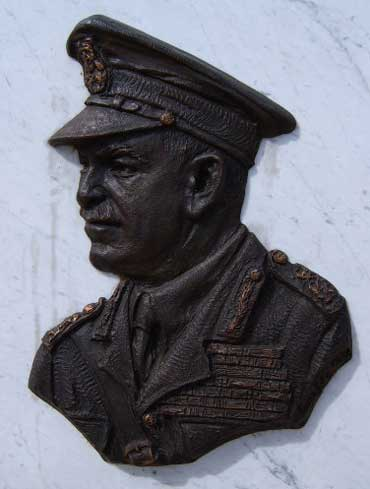 Field Marshal Sir Thomas Blamey, leading to the end of World War II, commanded all Australian military forces and commanded all forces in the South-West Pacific Area. I took this image of the bust/relief in Blamey Square, Canberra.